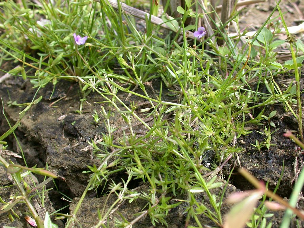 Deinostema violaceum(Scrophulariaceae) Japanese name:Sawatougarasi Date;2007,10,15;Outou,Tanabe city, Wakayama prefecture, Japan Author;Keisotyo